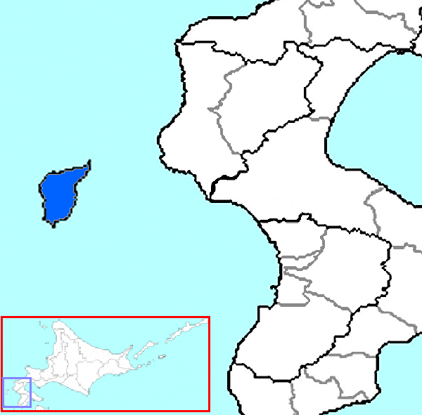 The location of Okushiri in Hiyama Subprefecture, Hokkaido Prefecture, Japan.